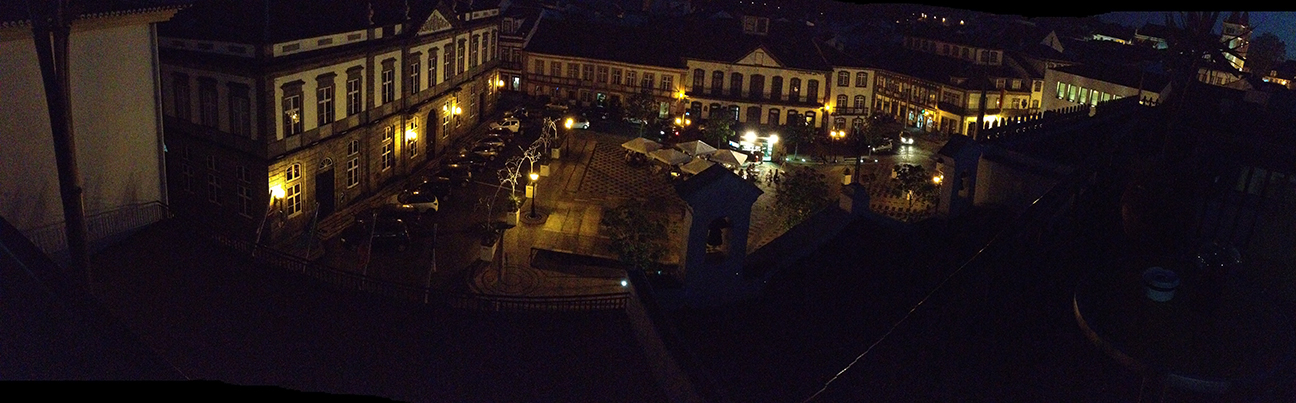 Terceria Town Square Azores Islands Portugal Panorama Night